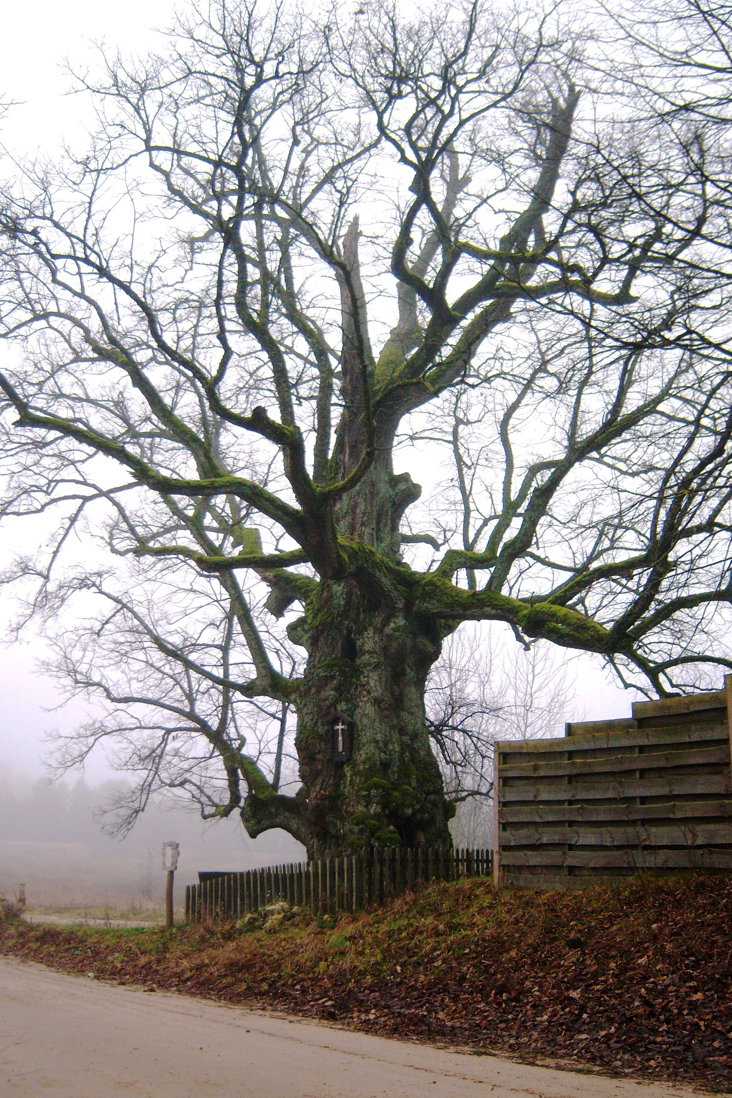 Lime the Mother, natural heritage object, small-leaved lime (tilia cordata) in Braziūkai, Kaunas district, Lithuania